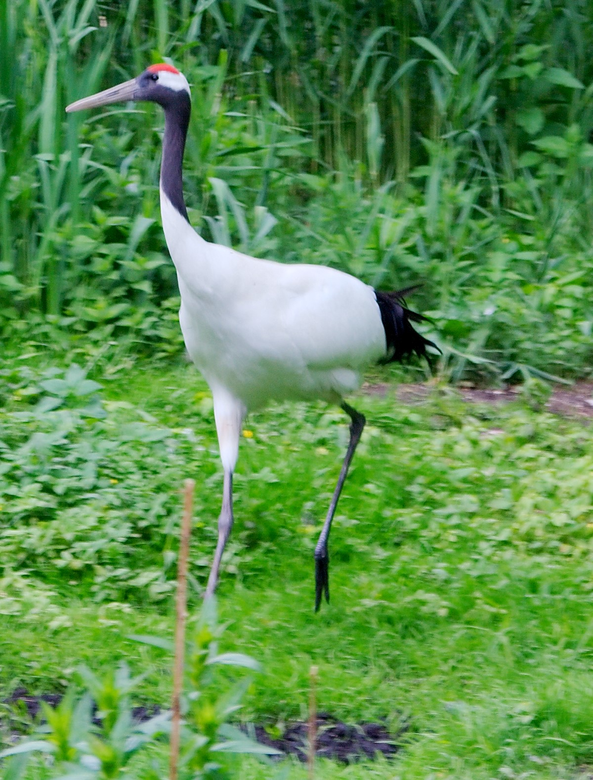 Red-crowned_Crane Grus japonensis